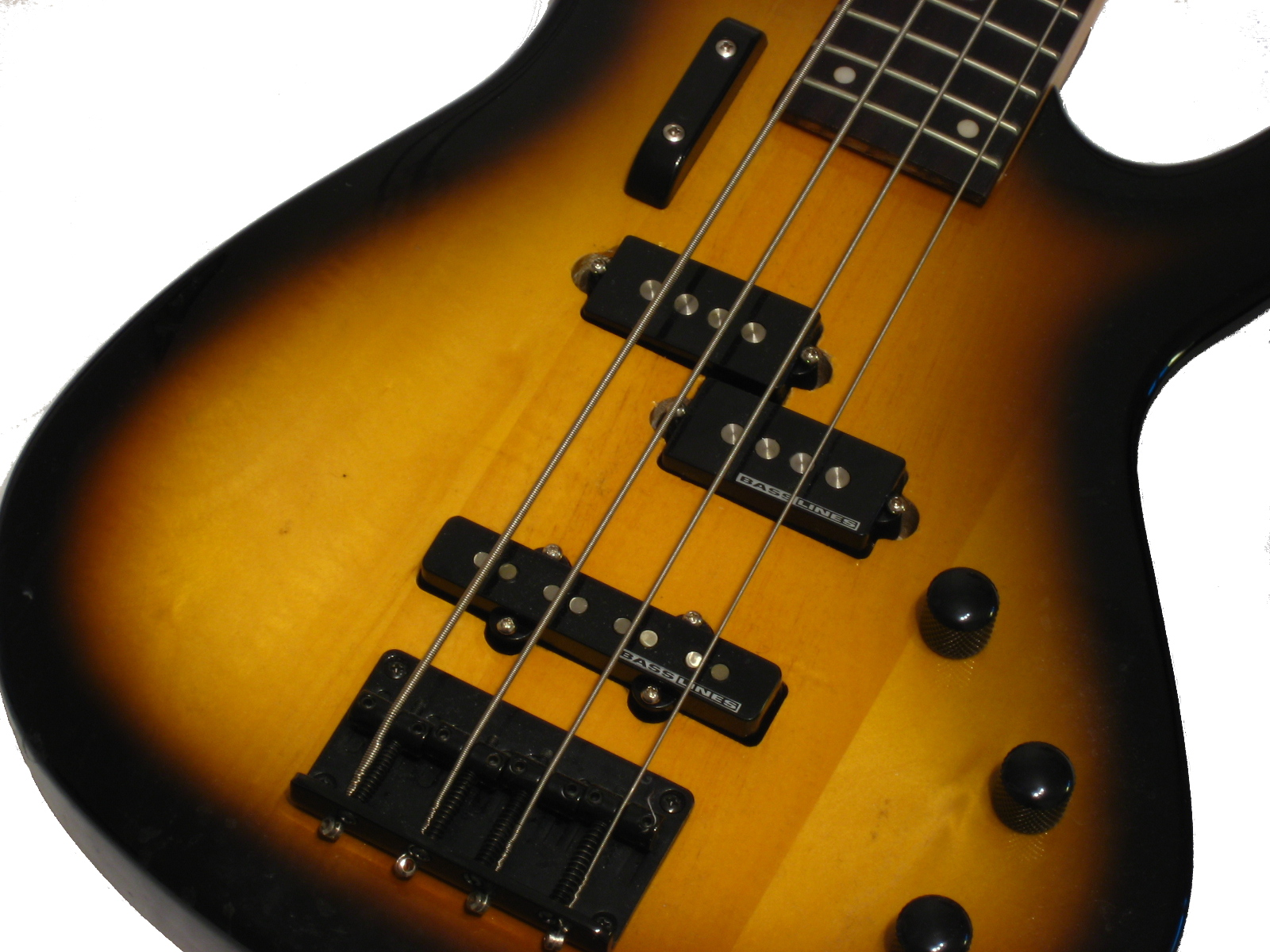 Seymour Duncan -bass pickups. Upper (P): Quarter Pound SPB-3, lower (J): Hot Stack STK-J2.